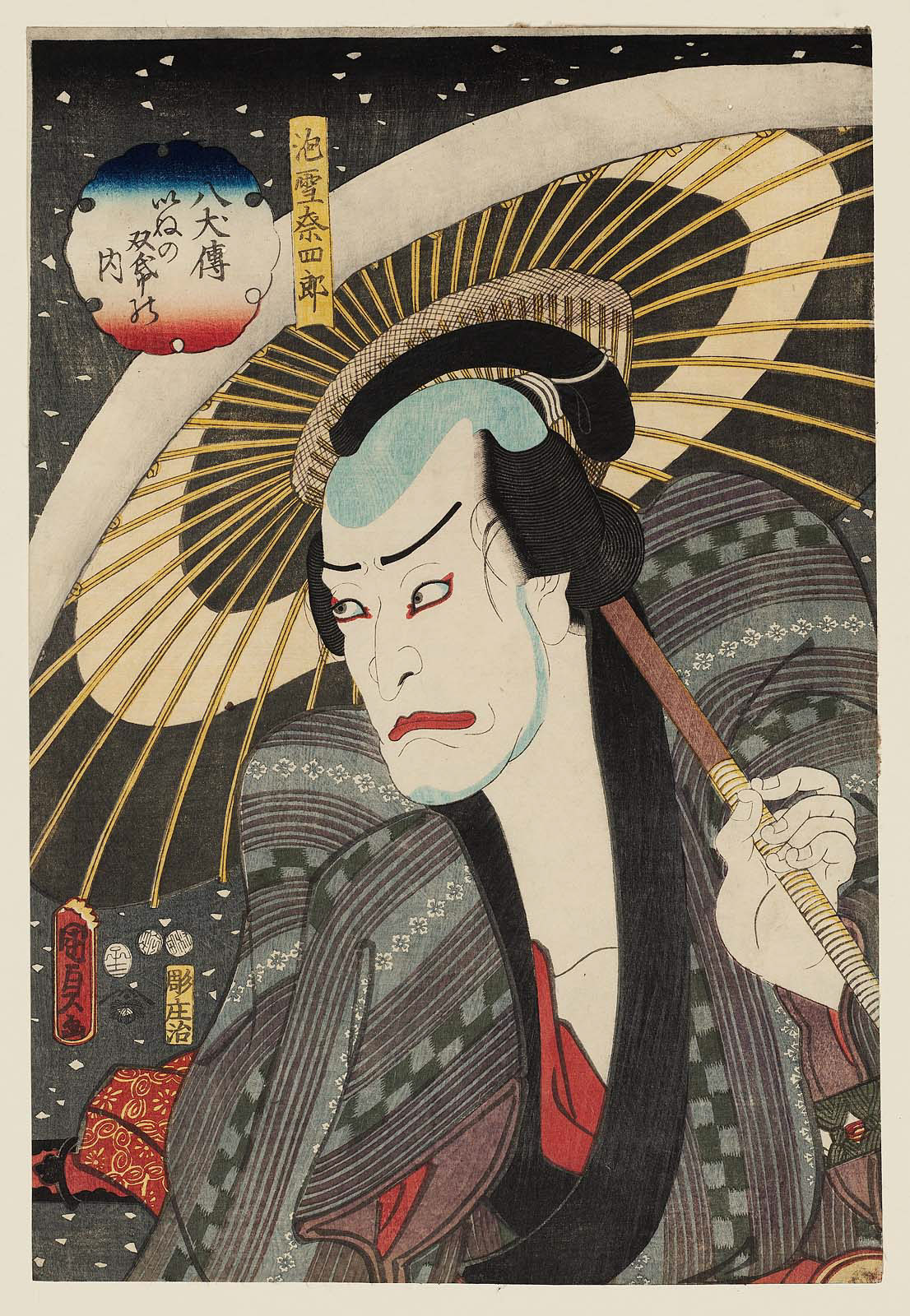 from the series The Book of the Eight Dog Heroes (Hakkenden inu no sôshi no uchi)